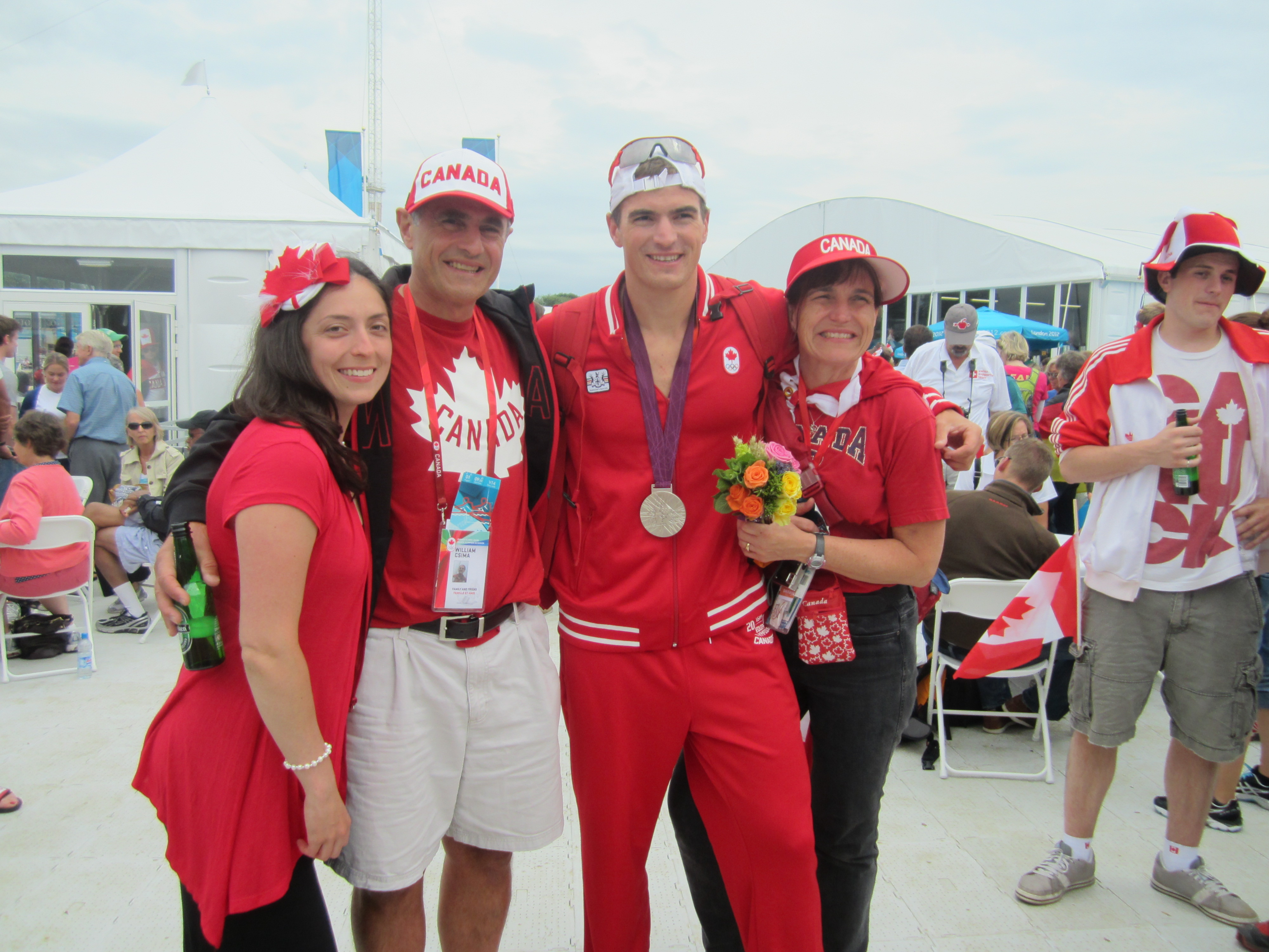 Douglas Csima with wife Megan and parents Les and Kathy after winning silver medal